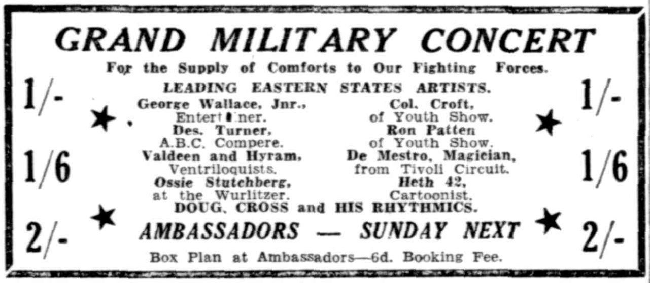 Advertisement for a military concert, performed by the company of the Army Entertainment Unit, especially to raise funds for the "Penny-a-Plane" Appeal, at the Ambassadors Theatre in Perth on Sunday 15 November 1942. Corporal N.F. Hetherington (NX131018) — Norman Frederick Hetherington (1921–2010) — who, at the time, sporadically contributed cartoons to The Bulletin (and who would, post-war, work for The Bulletin), signed his cartoons with “Heth” and the last two digits of the current year; thus the reference to “Heth 42”.(Display Advertisement, The West Australian, (Wednesday, 11 November 1942), p.5.)